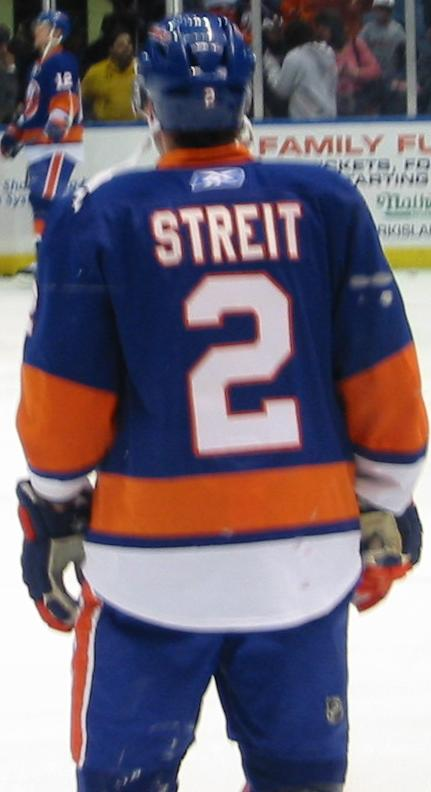 Mark Streit's back during a New York Islanders game.